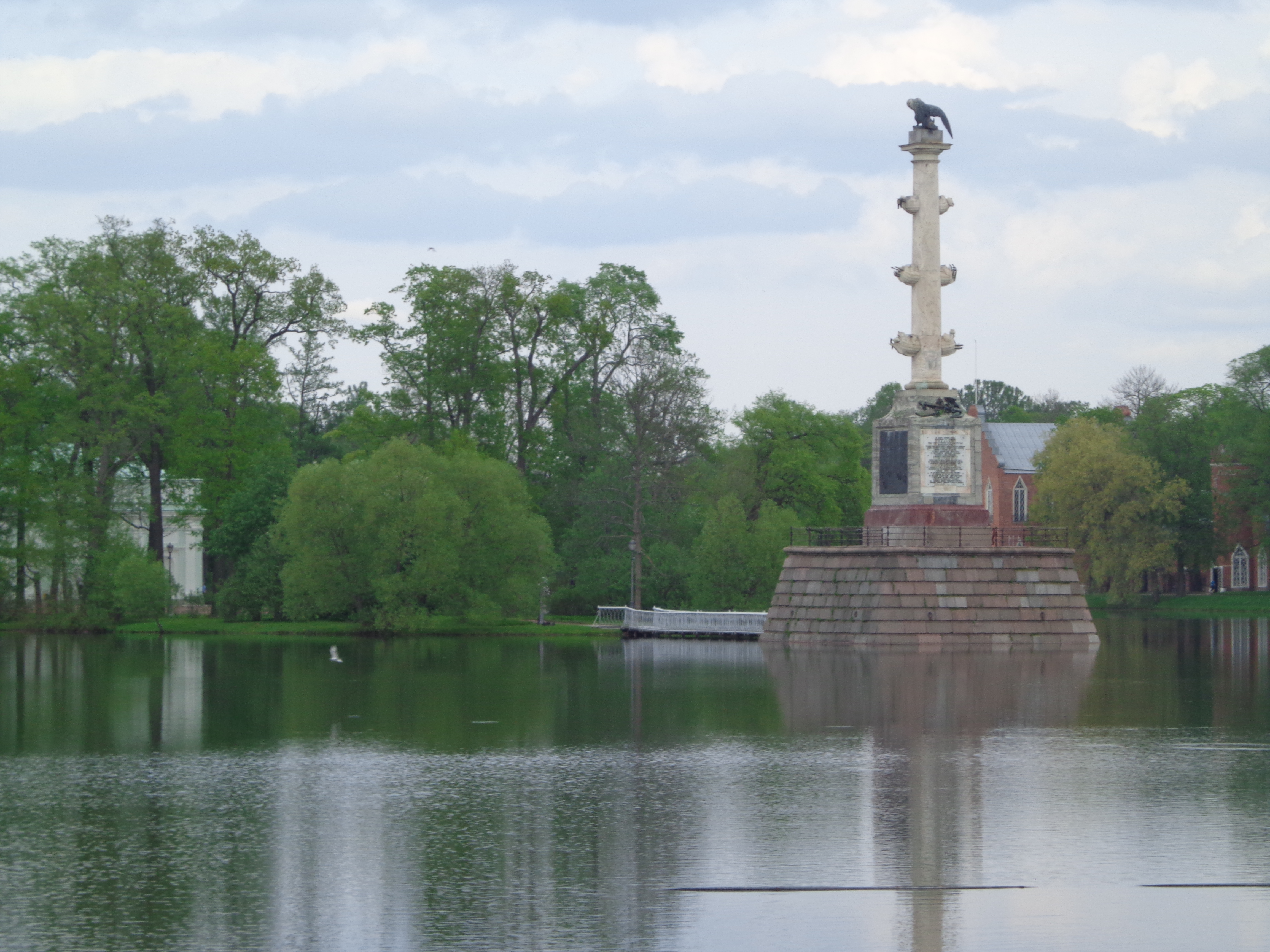 Chesme Column over the Great Pond, with in the back the Admiralty (right) and the Concert Hall (left), Catherine Park, Pushkin (Tsarskoye Selo)